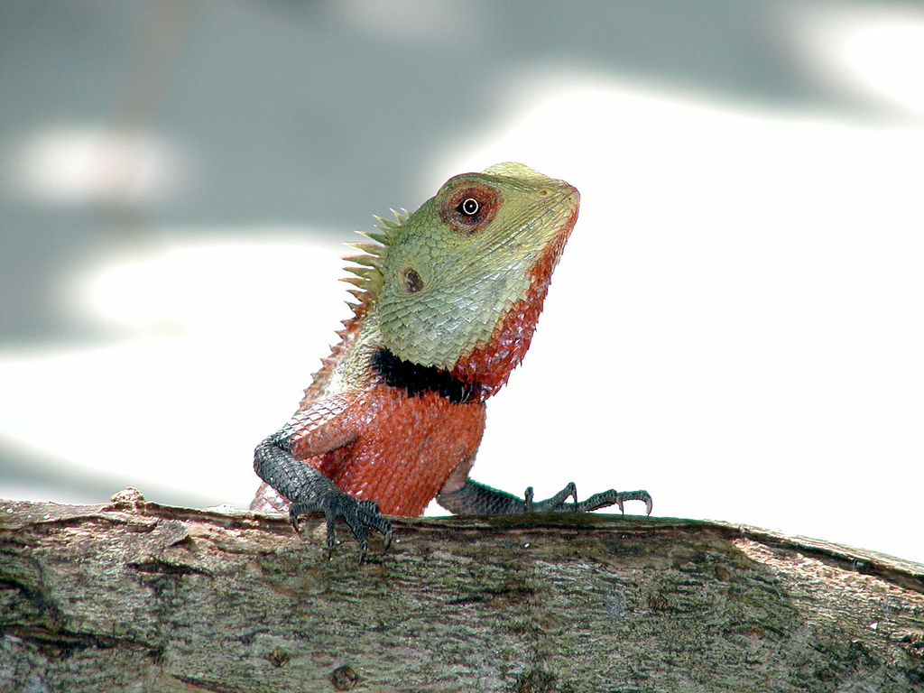 Calotes versicolor - Maledives